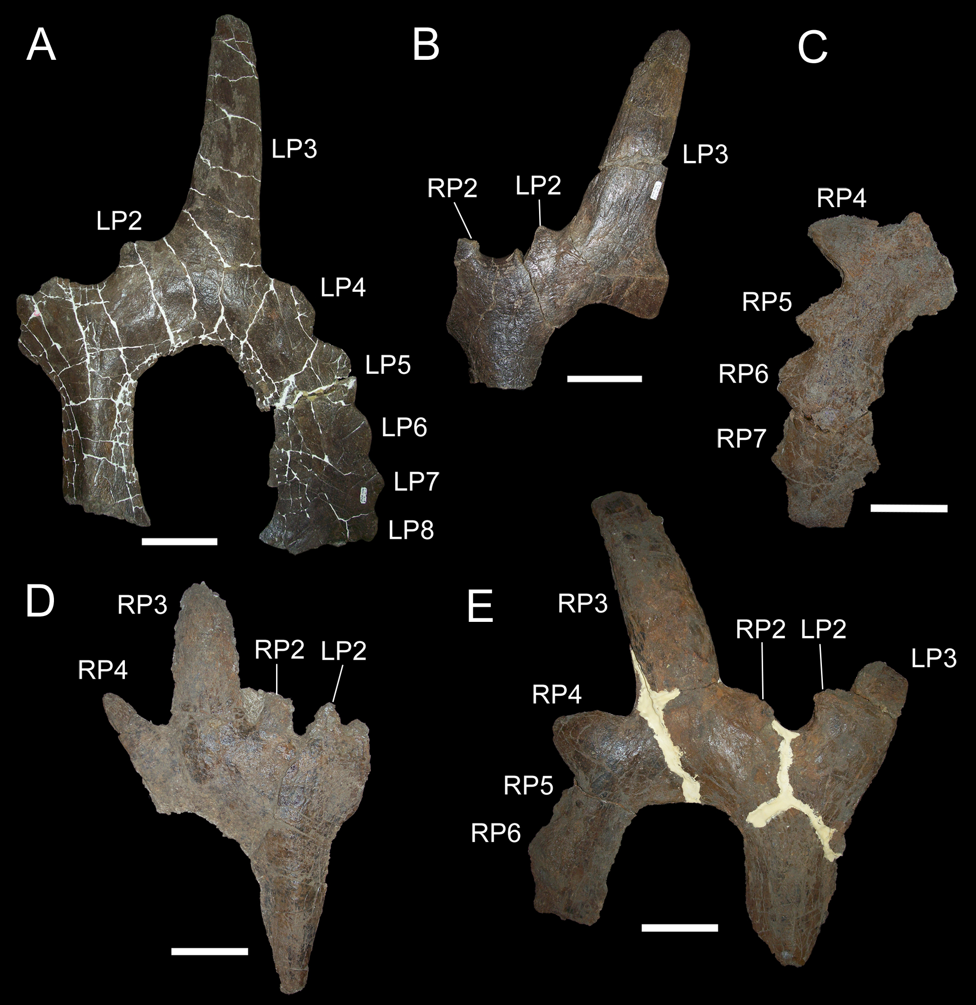 Parietals of Einiosaurus procurvicornis. (A) MOR 456-8-9-6-1 (holotype), parietal in dorsal view; (B) MOR 456-8-27-87-2, parietal in dorsal view; (C) MOR 373-001, right lateral parietal bar in dorsal view; (D) MOR 373-6-28-6-4, parietal in dorsal view; (E) MOR 373-7-9-87, parietal in dorsal view. Abbreviations: LP2, left P2 process; LP3, left P3 process; LP4, left P4 process; LP5, left P5 process; LP6, left P6 process; LP7, left P7 process; LP8, left P8 process; RP2, right P2 process; RP3, right P3 process; RP4, right P4 process; RP5, right P5 process; RP6, right P6 process; RP7, right P7 process. Scale bars equal 10 cm.